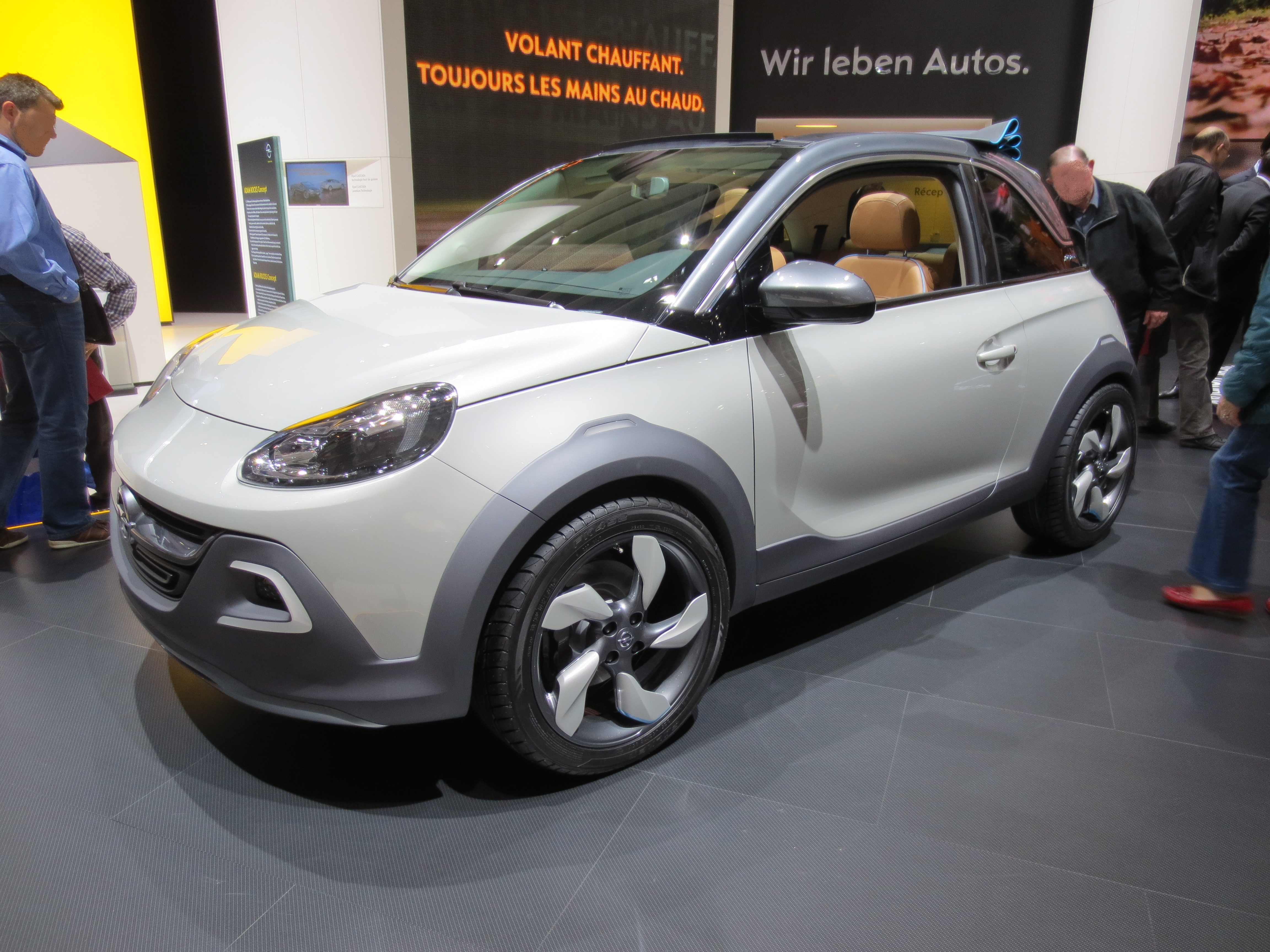 Subject: Opel Adam Rocks Author: Luc106 Date:March 12th, 2013 Event: Salon de l'Automobile 2013 Place/Country: Palexpo Grand-Saconnex, Geneva (Switzerland) I release all rights in the public domain.